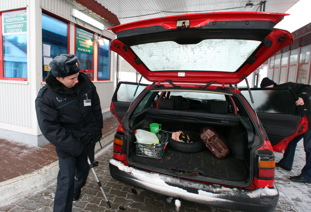 “Work of border guards on Russian-Lithuanian border in Ribachy village, Kaliningrad region”. Border guards inspect a vehicle at the international automobile checkpoint Morskoye - Nida.